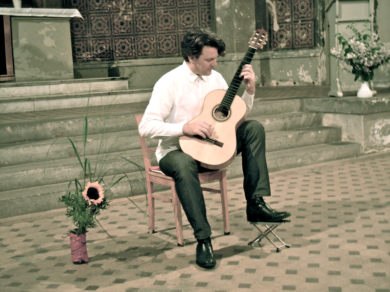 The photo shows Andreas Paolo Perger playing "Gravur/ Gravure - improvised compositions" live at Zionskirche Berlin on a Langenbacher concert guitar.